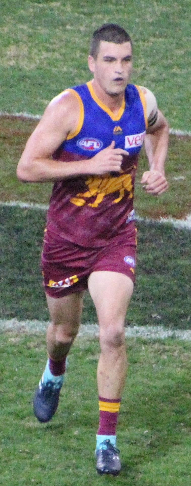 Tom Rockliff playing for the Brisbane Lions against the Gold Coast Suns on 12 August 2017